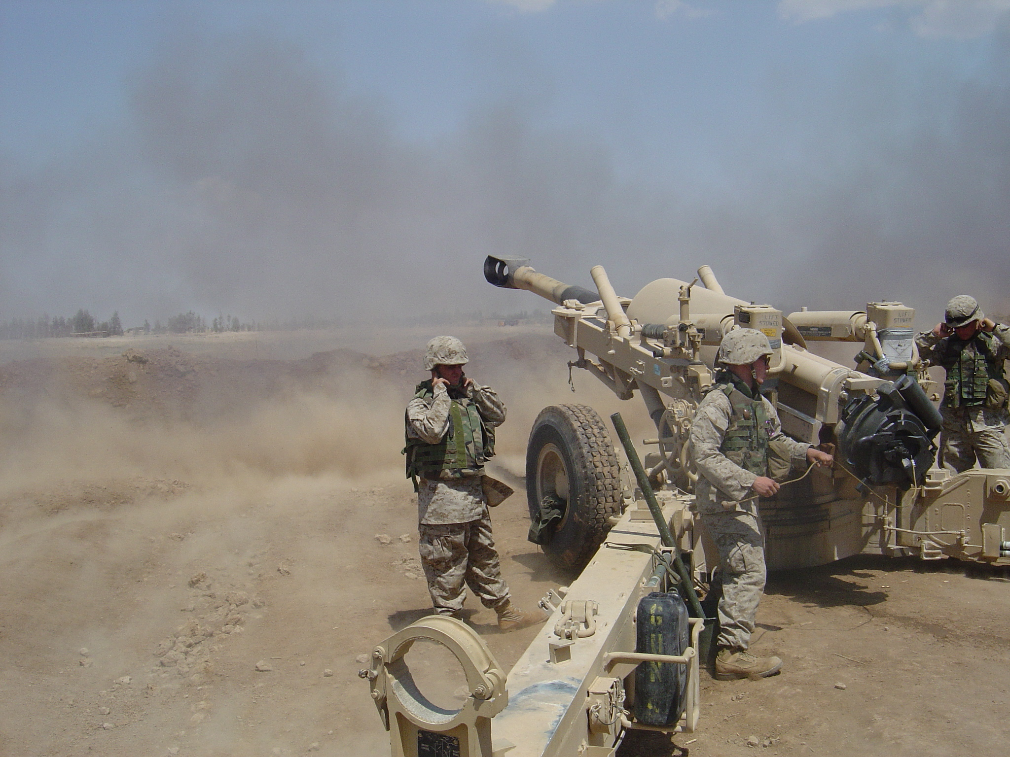 Picture taken in April 2004 in Camp Fallujah, Iraq.